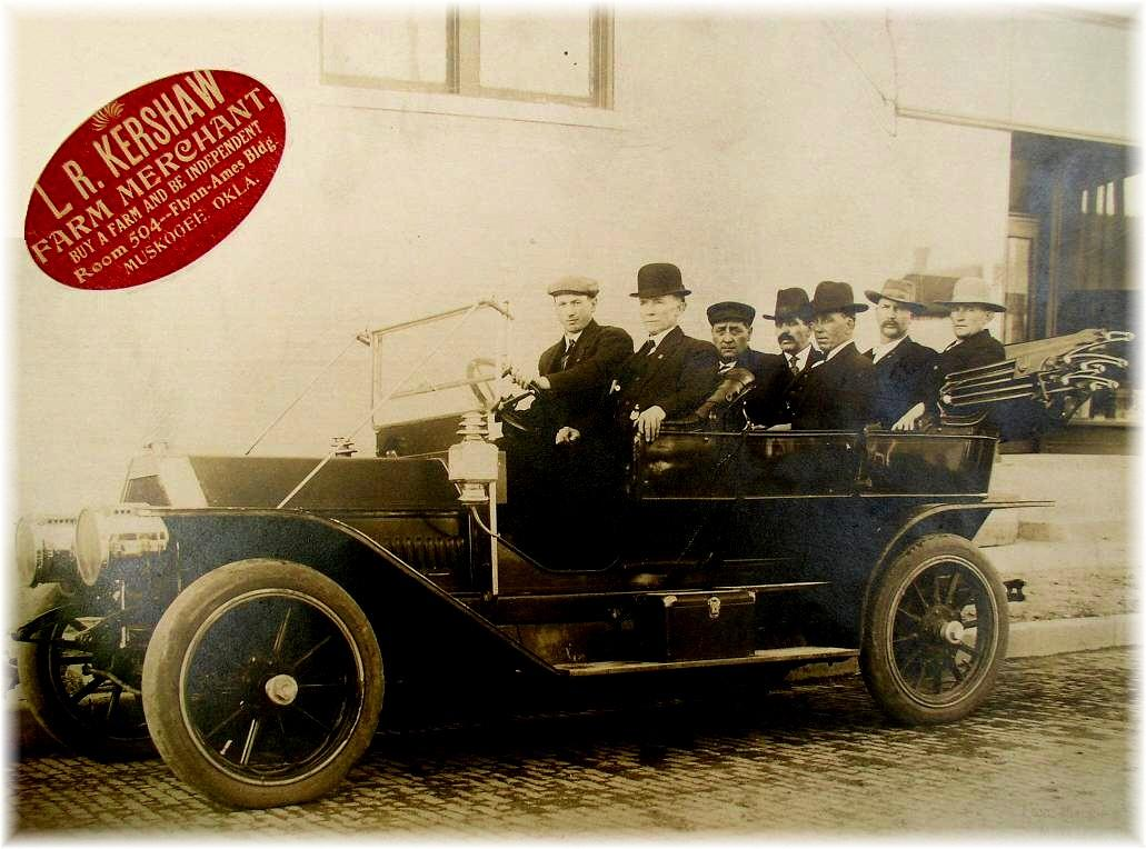 L R Kershaw in car